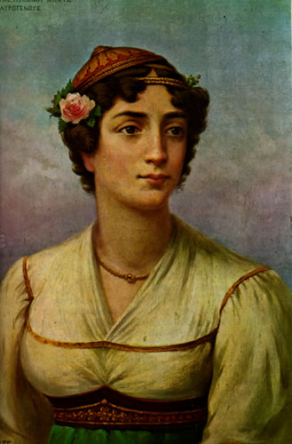 Portrait of Manto Mavrogenous